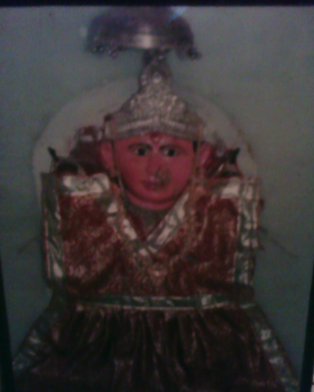 Vehrai Maa, Isnav